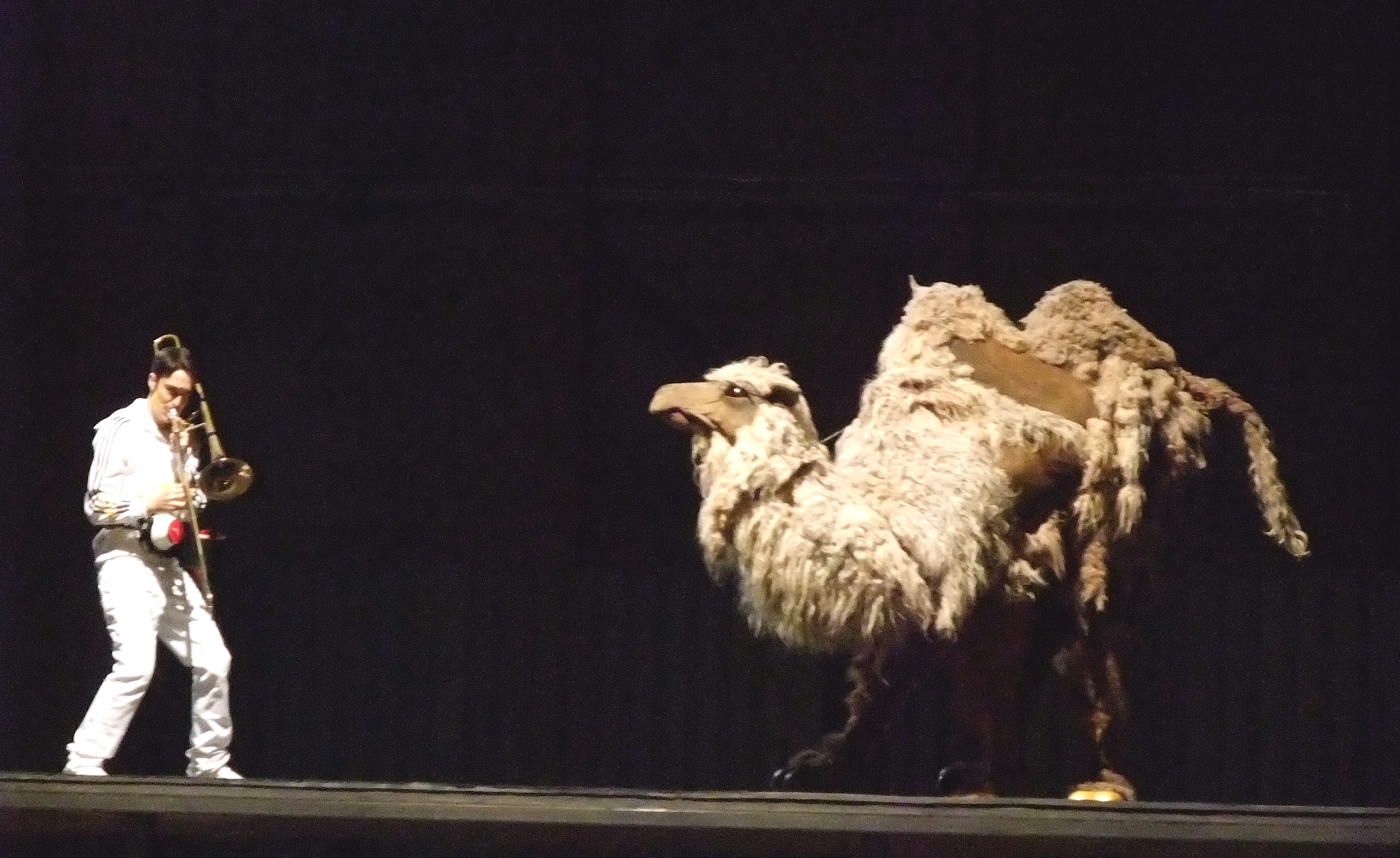 A moment from scene 4, Michaelion, of Karlheinz Stockhausen's opera Mittwoch aus Licht, Birmingham Opera, Friday, 24 August 2012, Argyle Works, Digbeth, Birmingham. "Lucicamel and his trombone assistant now artfully dance a CAMEL DANCE: 'drunk', 'cajoling', 'rude', 'proud like a show horse', 'supple like a ballerina', 'jerkily like a robot'. During this, Lucicamel sings names of stars, sneering at Sirius philistines who say that Lucicameltrombonut are not musical". Photograph by Jerome Kohl.